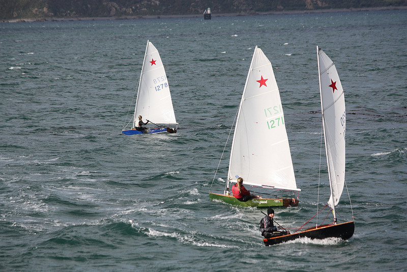 Starling yachts racing at Worser Bay Boating Club, Wellington New Zealand, 2014